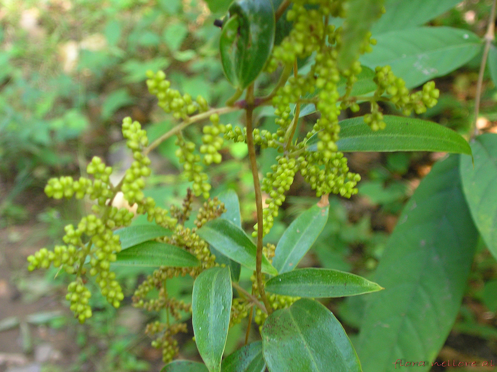 Family: Menispermaceae Distribution; Common on hedges and thickets, prominent by its drooping branches and yellow racemes.distributed in Peninsular India, SriLanka, Australia and Malaysia. Straggling shrubs, Leaves 3-7x2-4.5cm, ovate-lanceolate, base rounded, apex retuse, mucronate, coriaceous, turning yellow with age. Flowes monoecious,sweet scented,2-3mm across, yellow in 4-10cm long axillary racemes. Sepals and petals 6 each, base auricled, stamens 6 in males, incurved, carpels 3rudimentary, minute, in females staminodes 6, ovaries 3. Fruit drupe, reniform. Photographed at Velugonda hills of Easern ghats of A.P